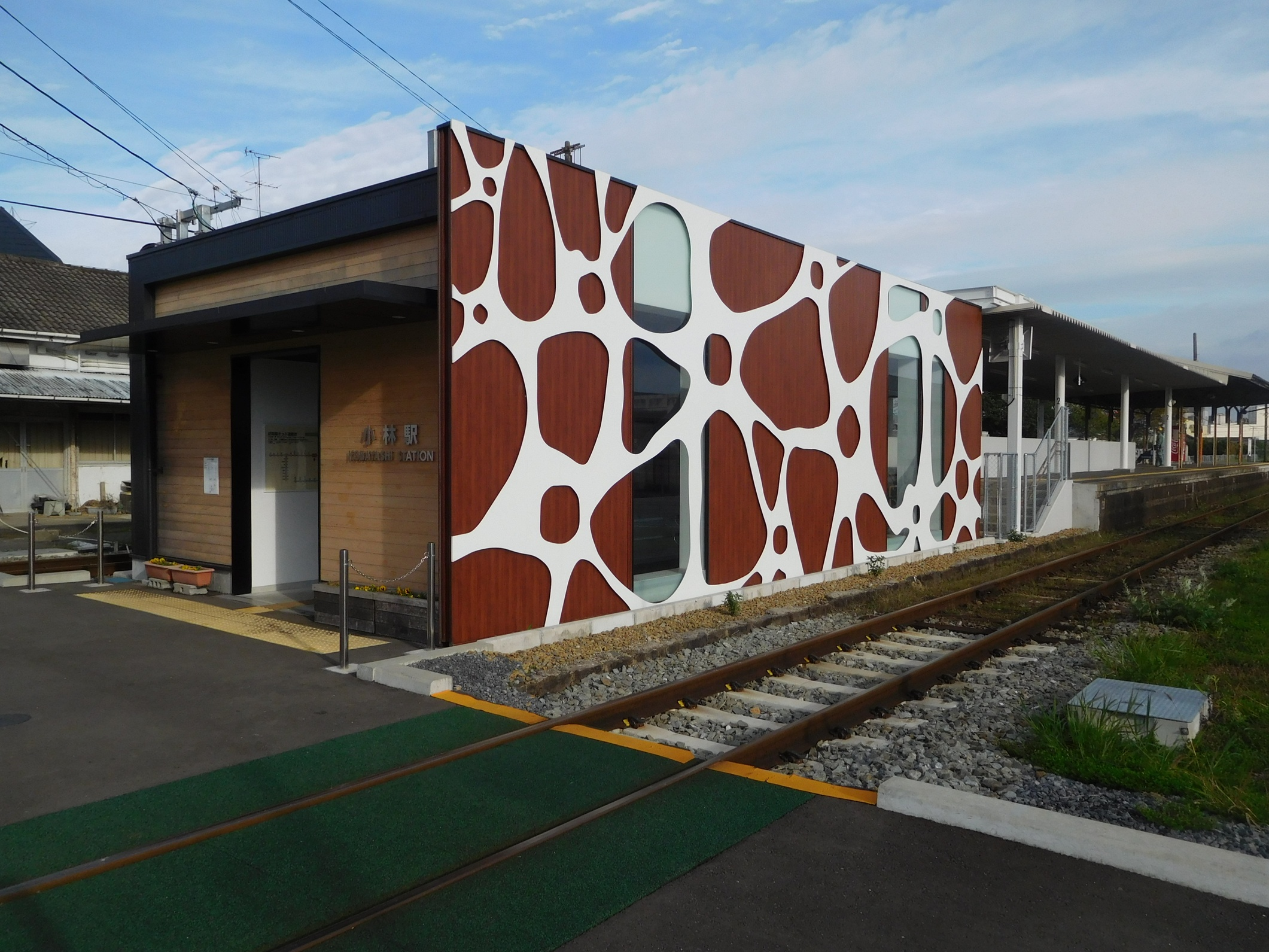 JR Kyushu Kitto Line - Kobayashi Station (Kobayashi City, Miyazaki Prefecture, Japan)